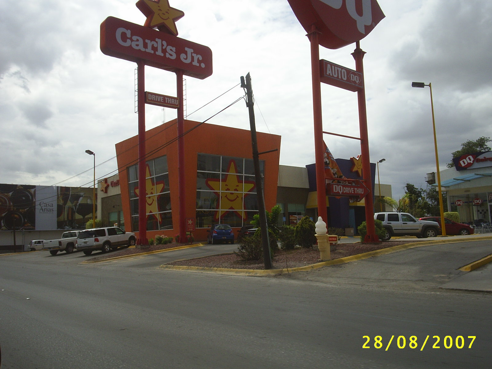 Carl's Jr. restaurant with "Auto DQ" Dairy Queen in Torreón, Coahuila, México